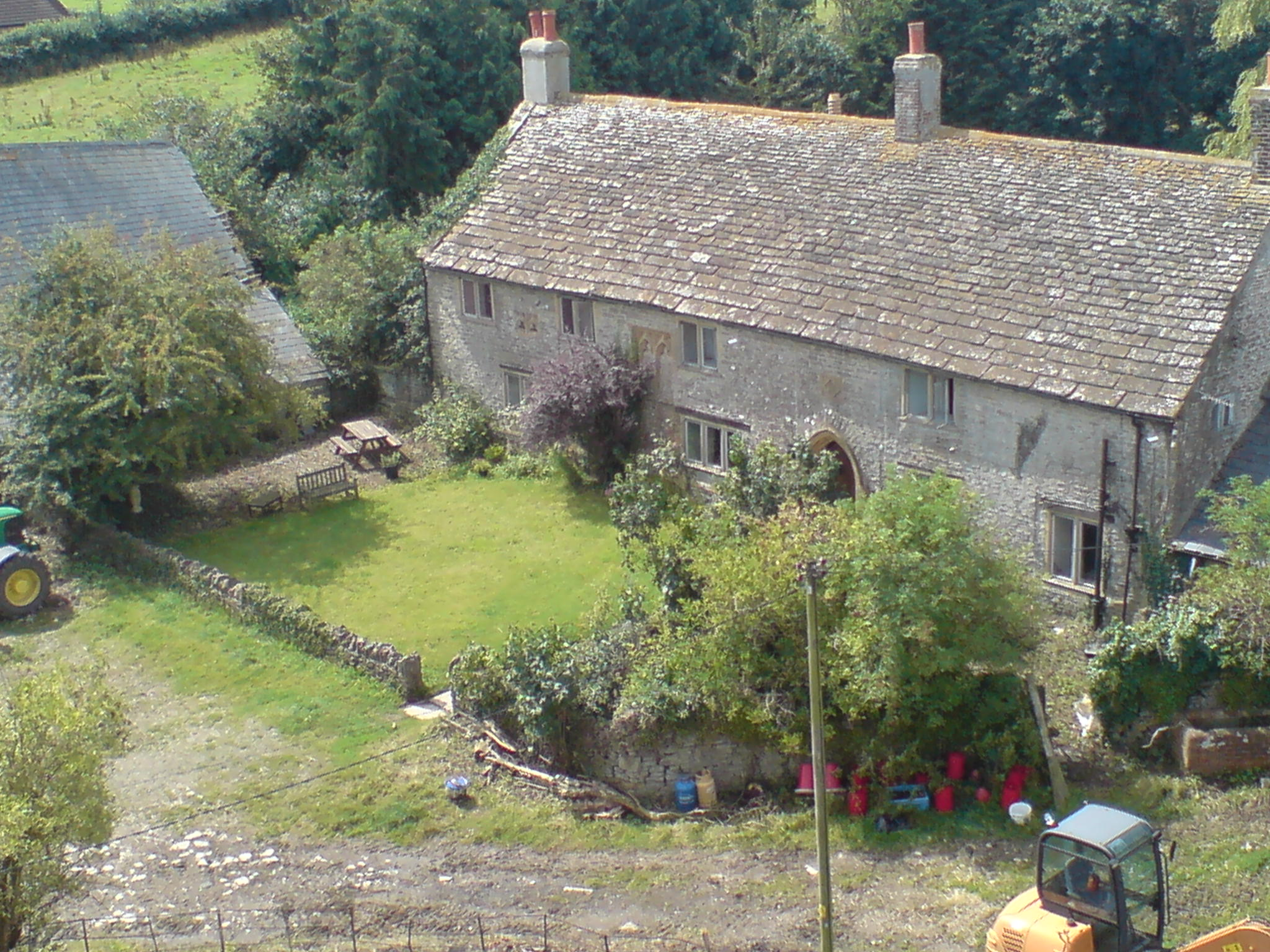 Benjamin Jesty's farmhouse at Upbury Farm, Yetminster.